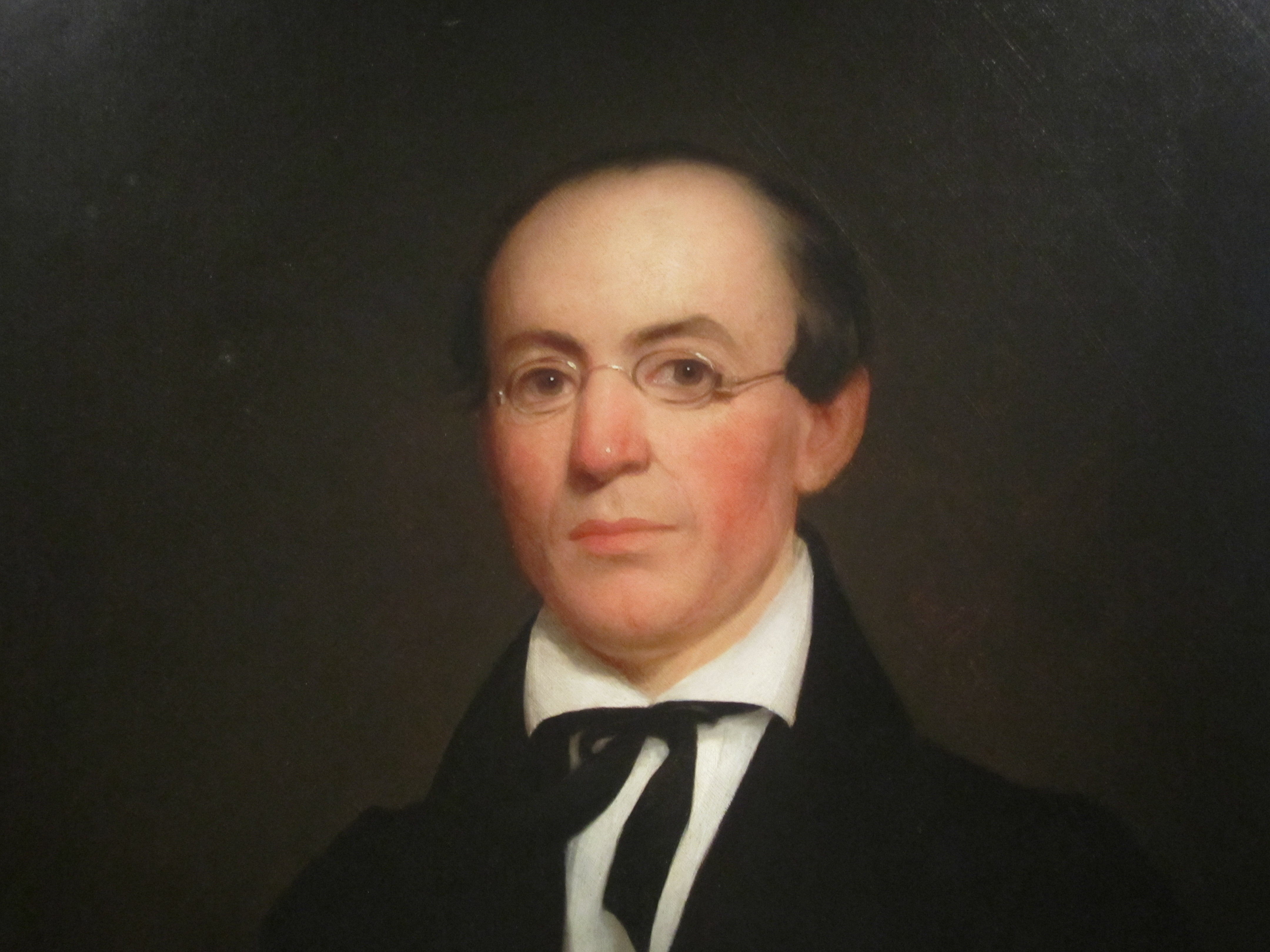 I took photo of William Lloyd Garrison at National Portrait Gallery with Canon camera. Public domain.